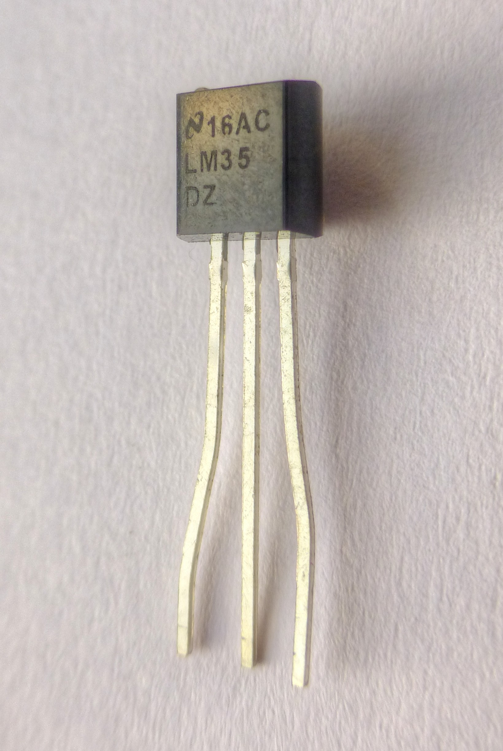 LM35 temperature sensor, semiconductor thermometer. Measures 0-100 degrees C.